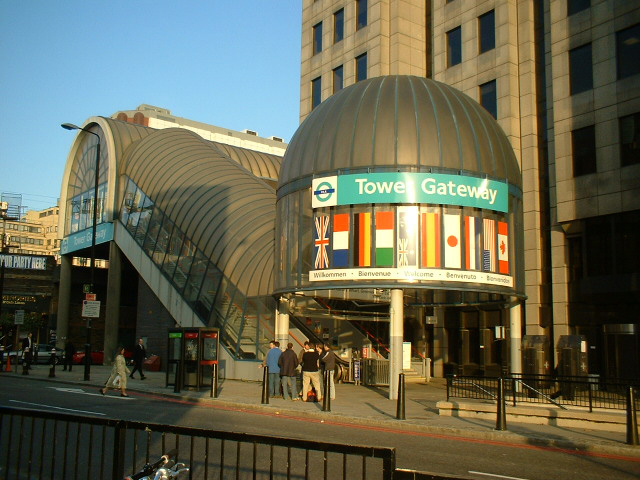 DLR station Tower Gateway, London, UK